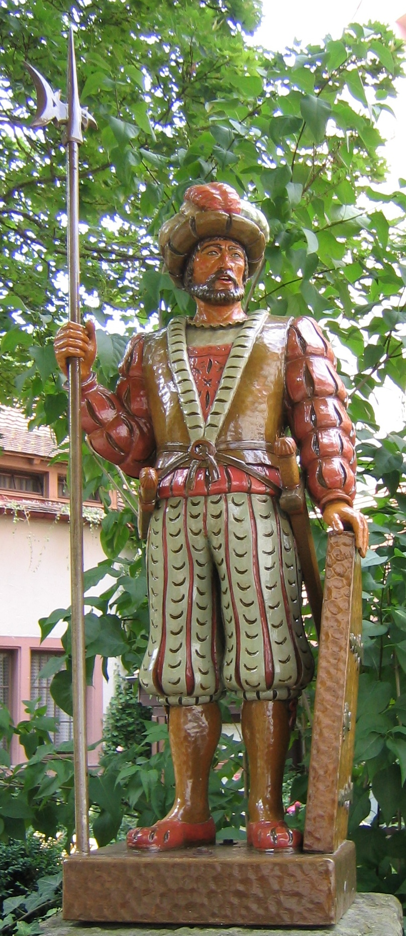 Statue of the "Giant Romäus", a local hero in Villingen, Germany